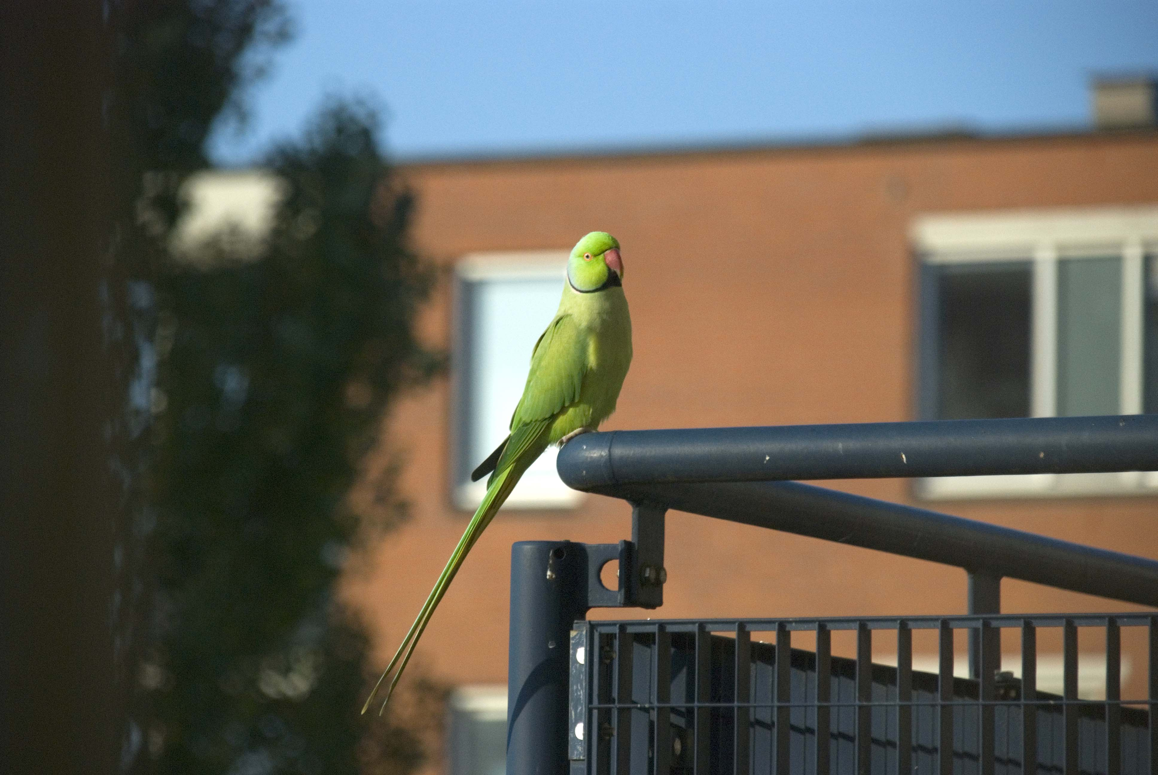 A male Rose-ringed Parakeet (also known as the Ringnecked Parakeet) in Amsterdam, Netherlands.